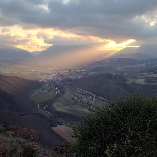 View of Smirra from Monte Donico